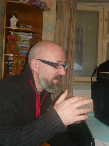 Russian Artist Oleg Kulik